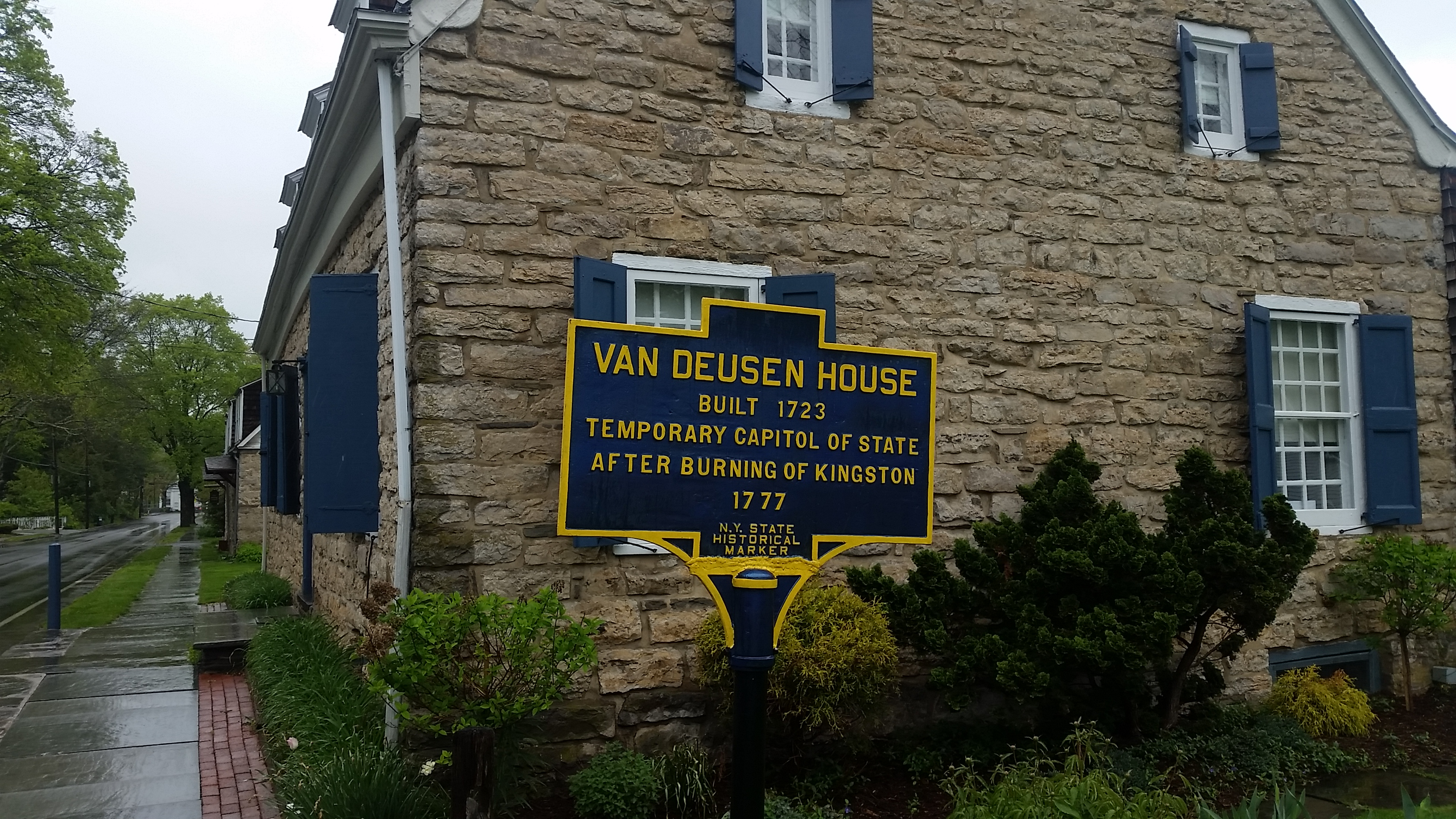 NY State Historical Marker for the Van Deusen House, a temporary capitol for NY State